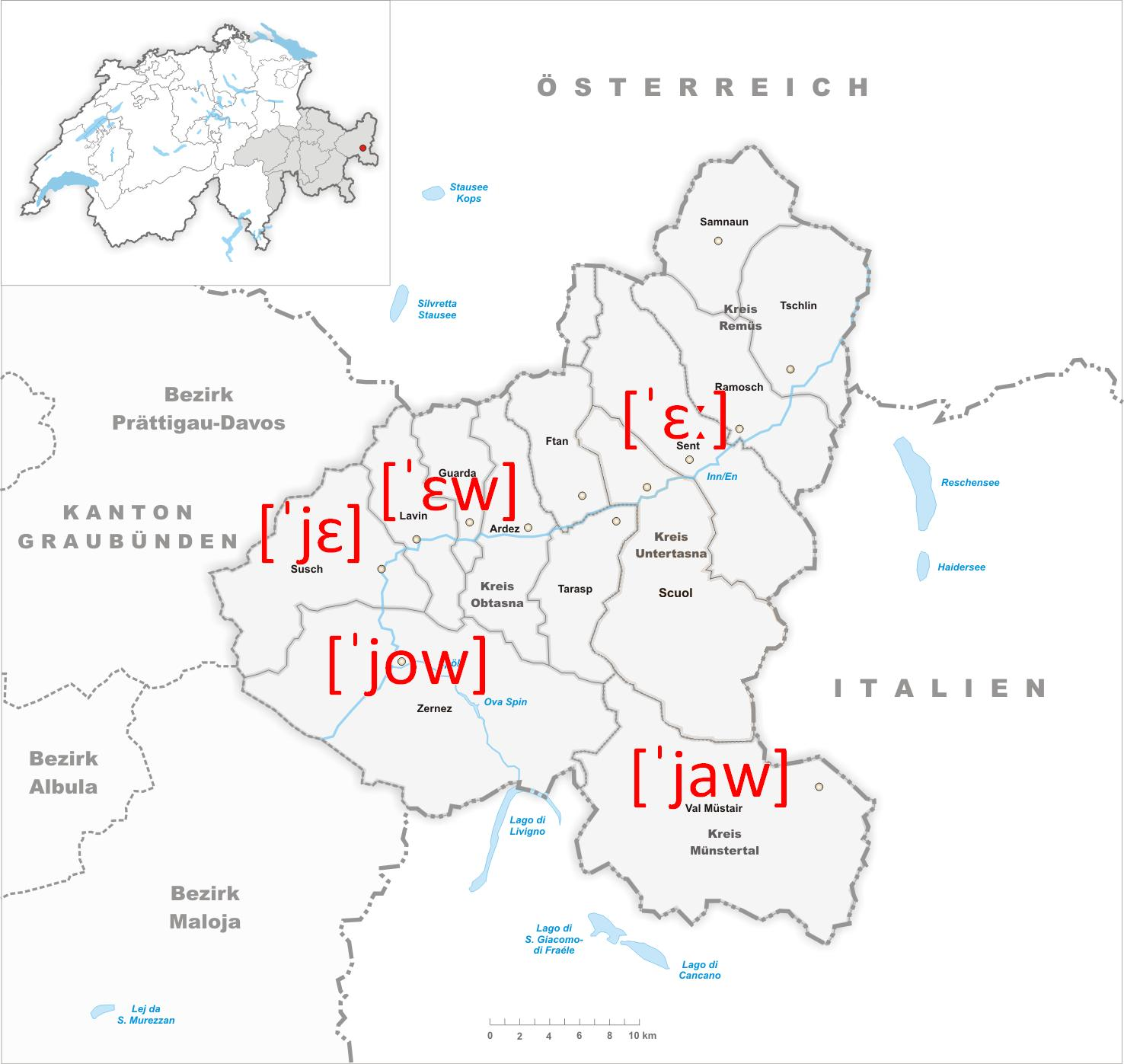 The word "eu" (English "I") in Vallader.